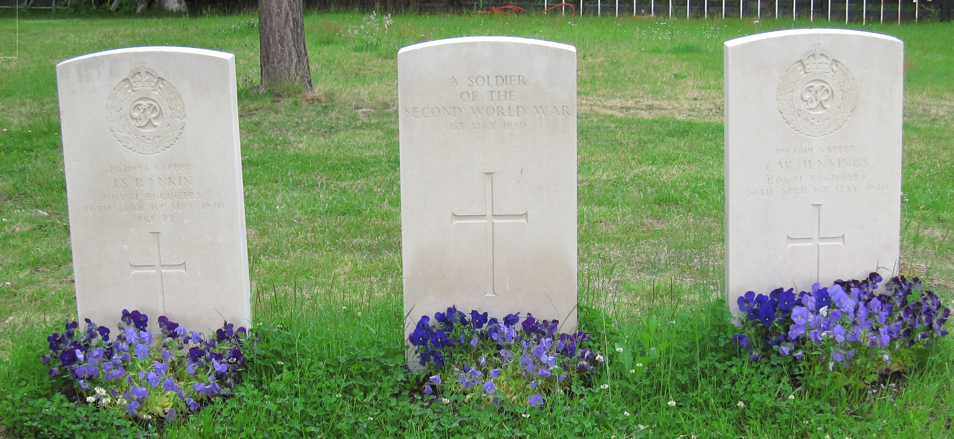 Commonwealth war graves at Lesjaverk church